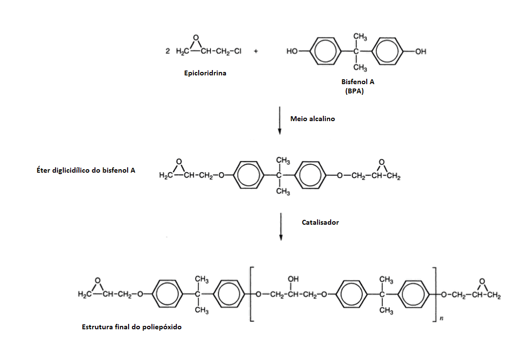 Synthesis of polyepoxide